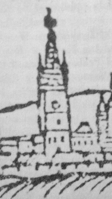 Vyškov (Czech Republic)